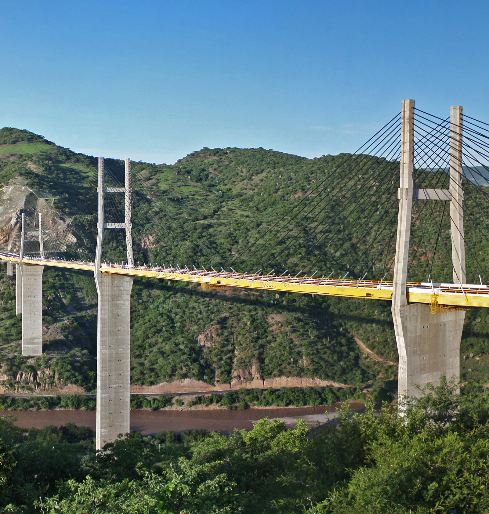 Mezcala Bridge on Highway 95 in Mexico